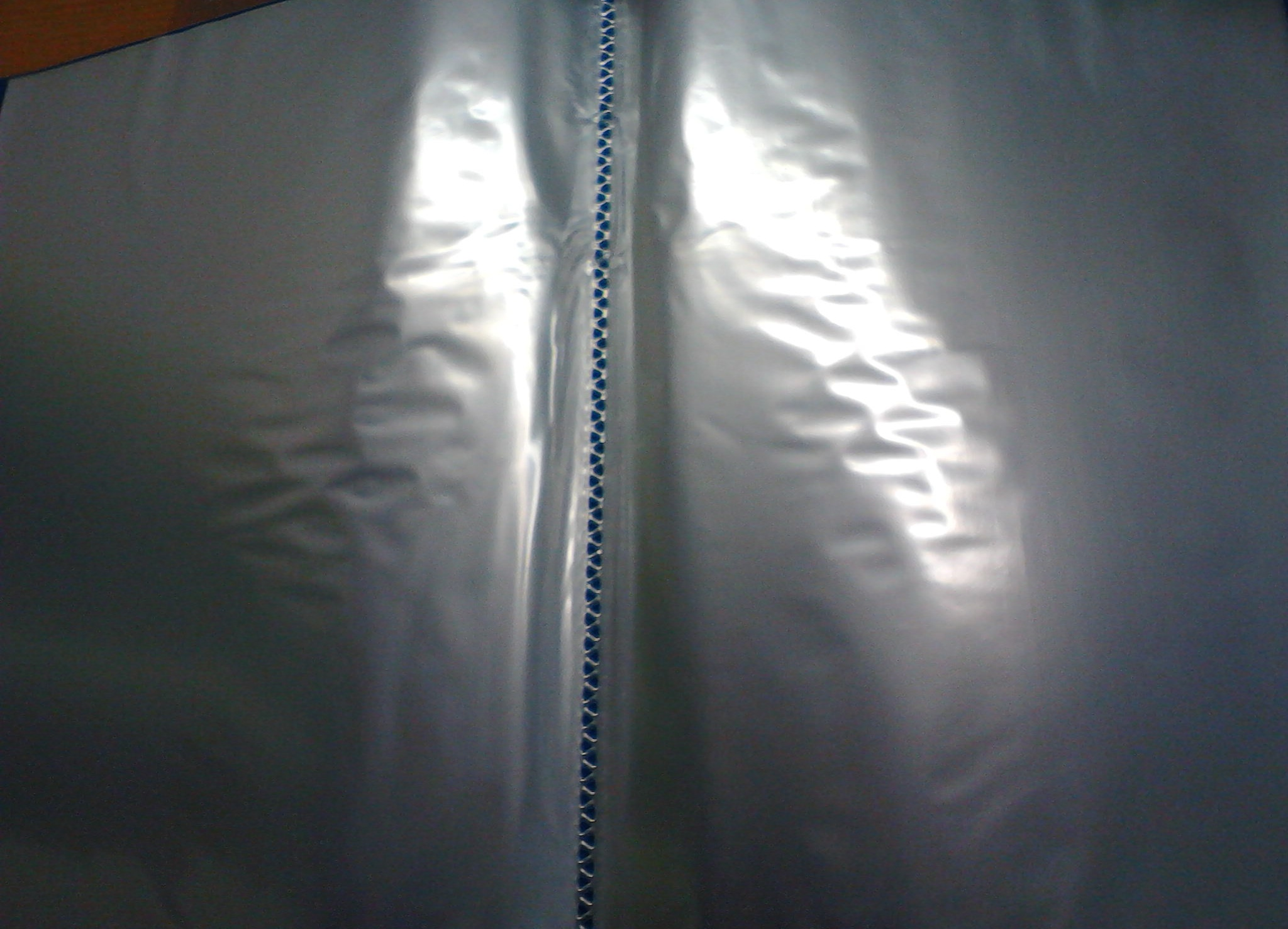 This is a photograph of blue opened file holder.